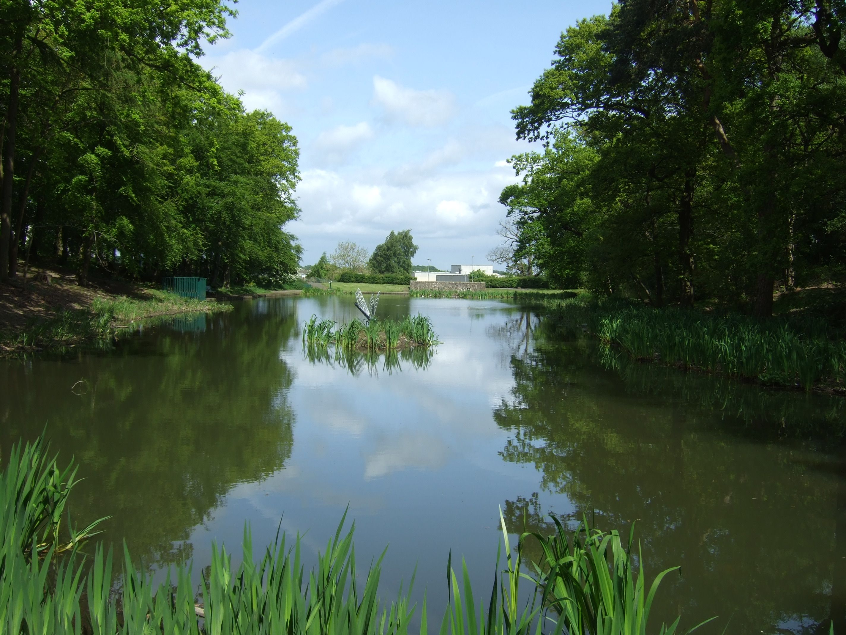 Dedridge Pond in Livingston, West Lothian, Scotland, looking roughly north.